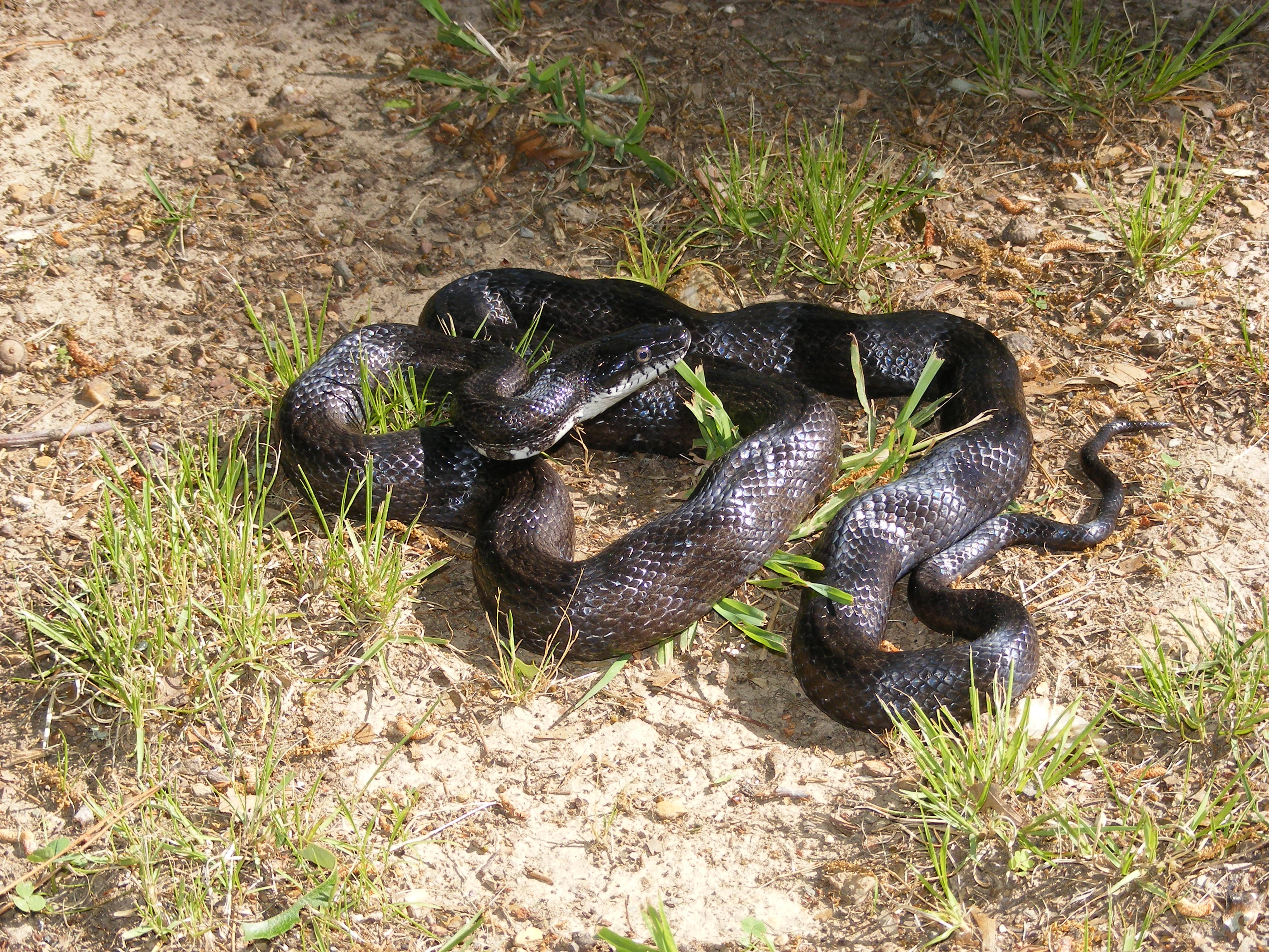 Black rat snake showing "kinked" threatened posture.